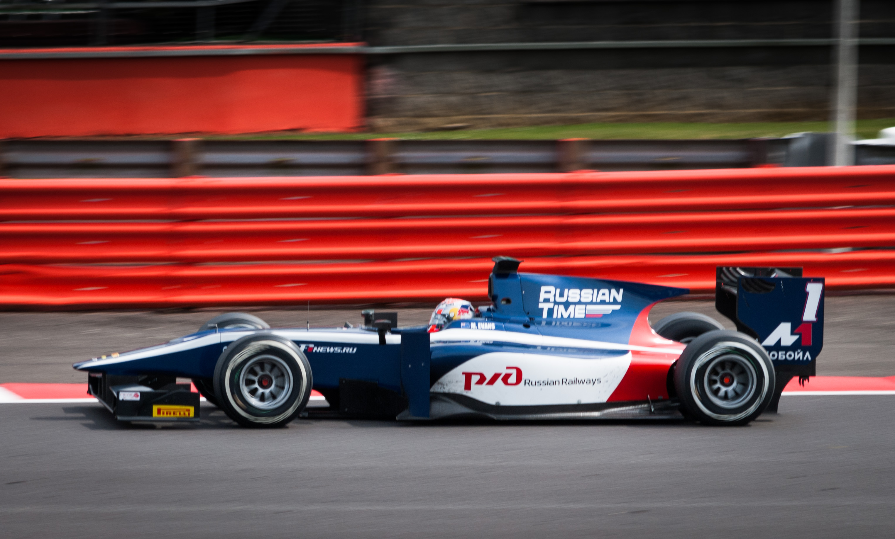 Mitch Evans driving for RT Russian Time at Silverstone. Round 5 of the 2014 GP2 Series Championship.